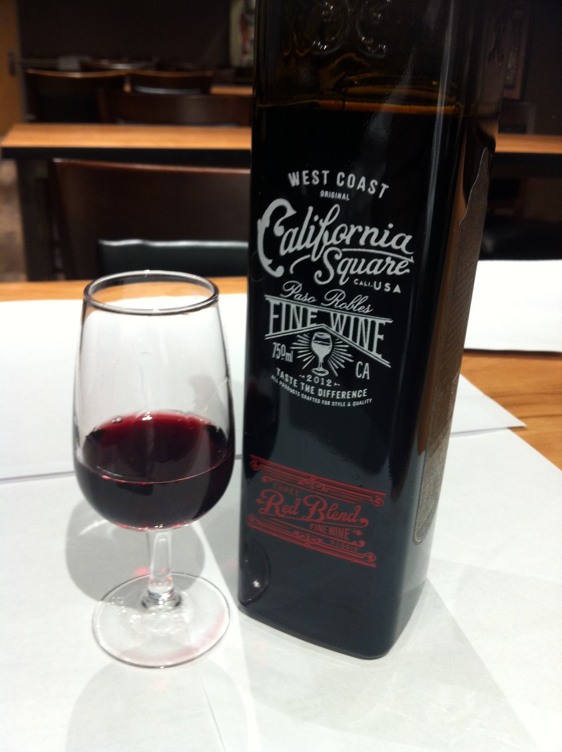 Red California wine from the Paso Robles region of Central Coast packaged in a square shaped wine bottle